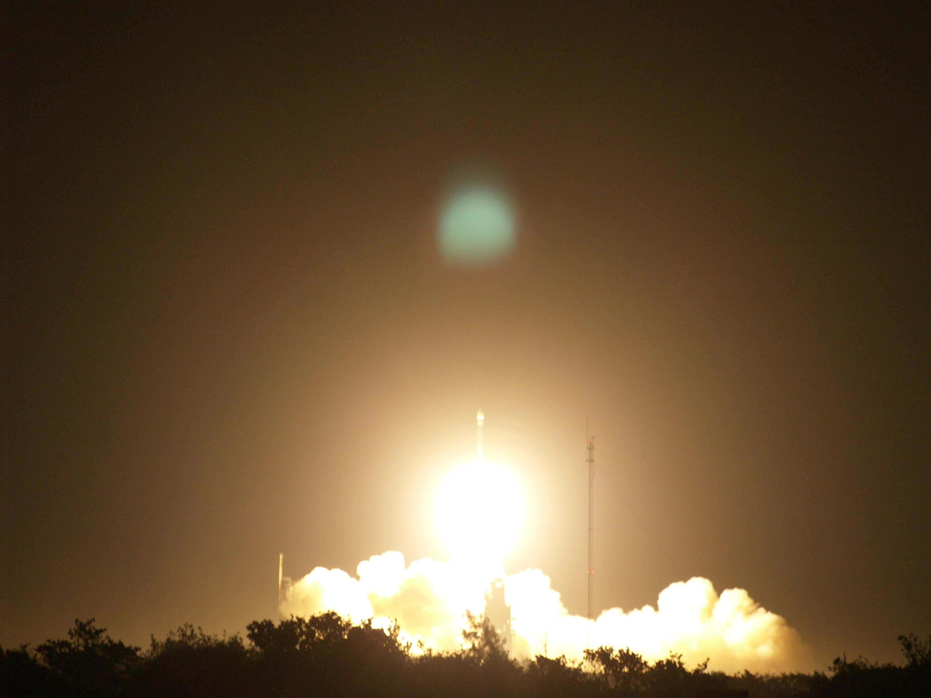 USA-203, also known as GPS IIR-20(M), GPS IIRM-7 and GPS SVN-49